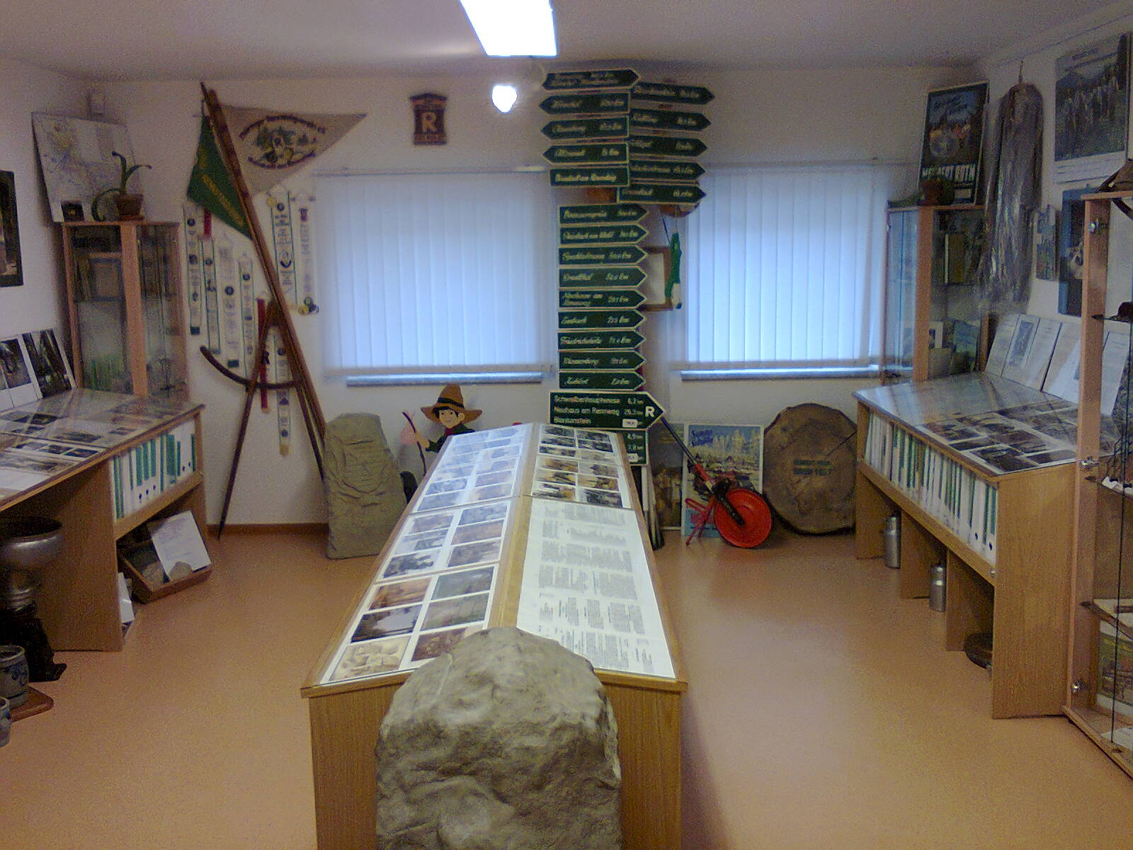 Rennsteigmuseum Neustadt